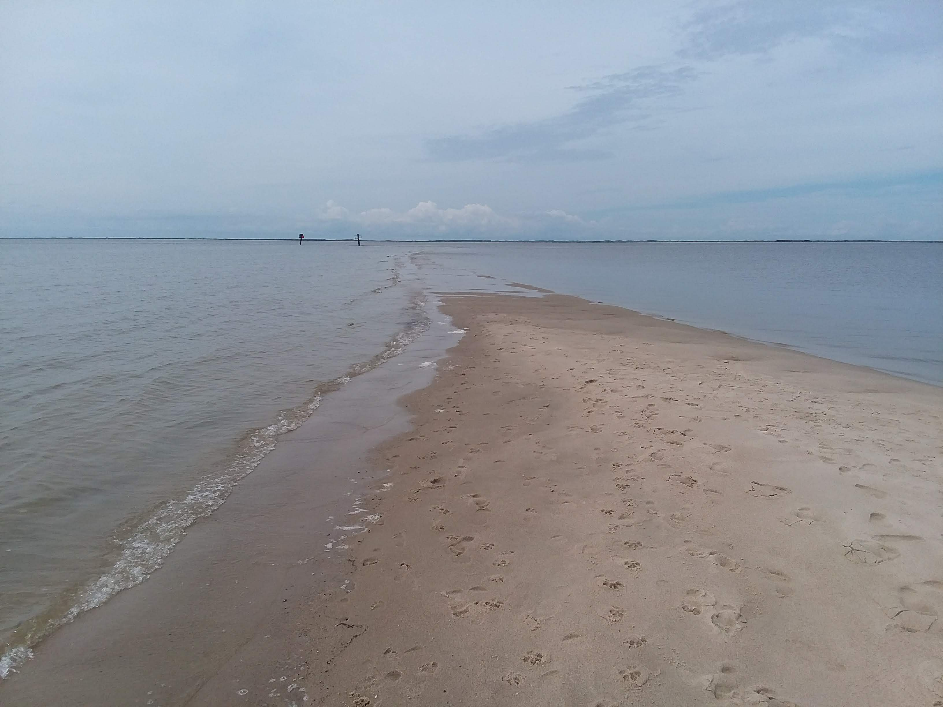 An outward-facing photo of Roaring Point in Nanticoke, Maryland at low tide in August 2020